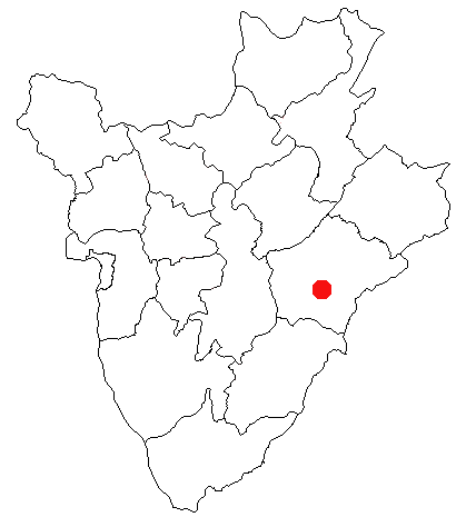 Ruyigi, Burundi Location Map; created with the GIMP. Made by User:Acntx.